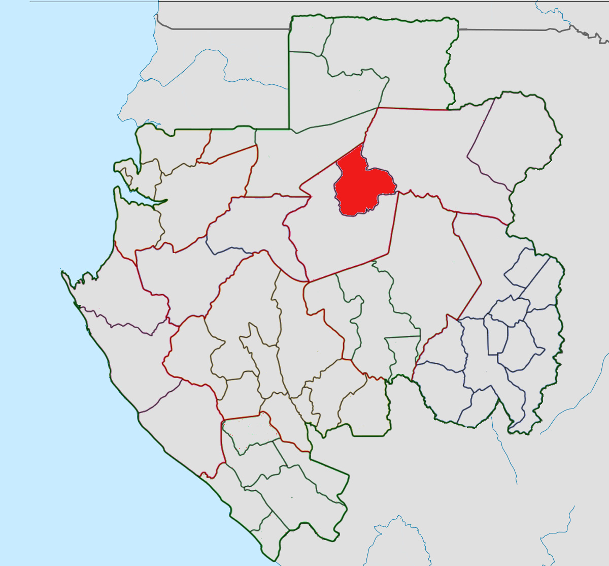 map of Mvoung department